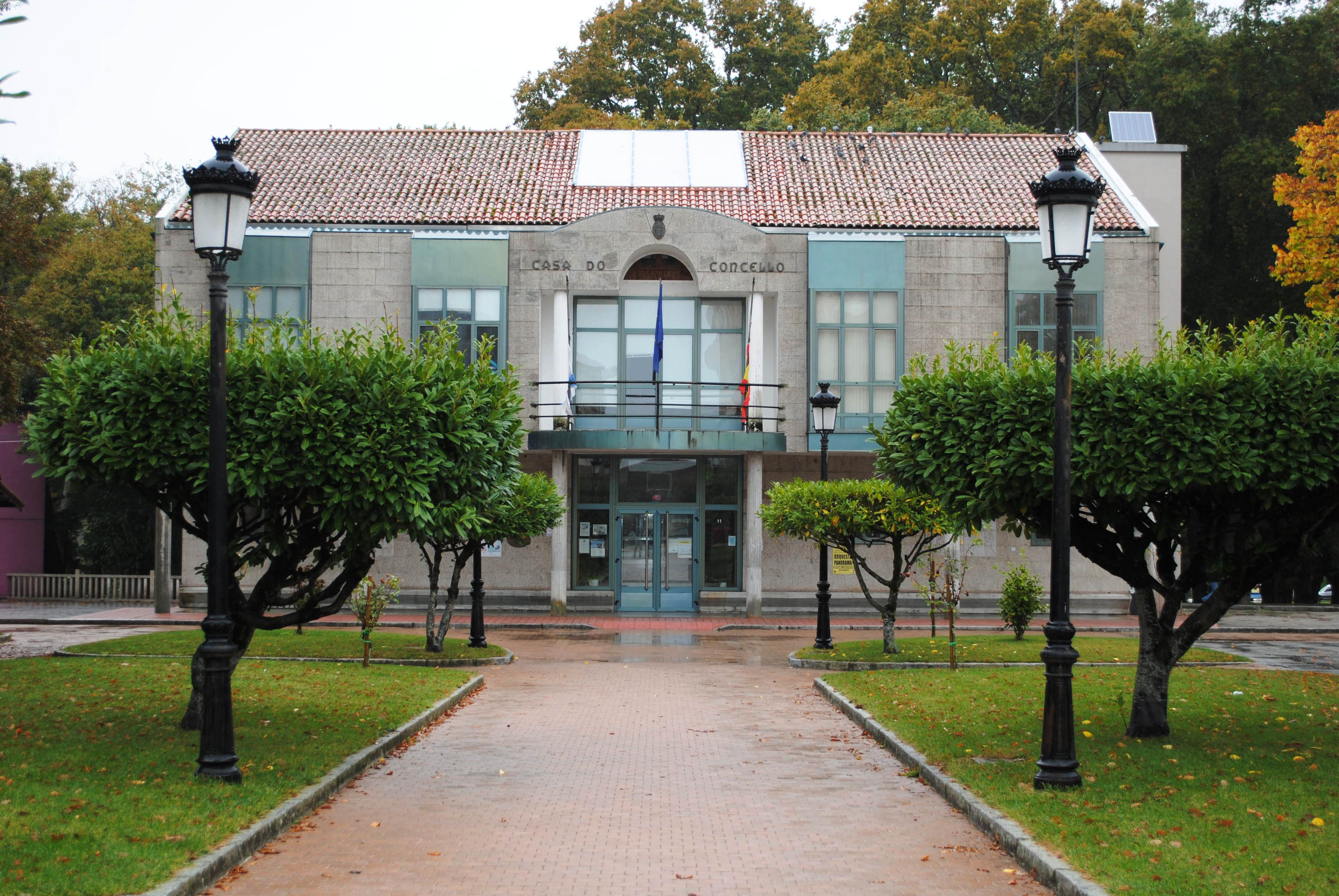 See title.